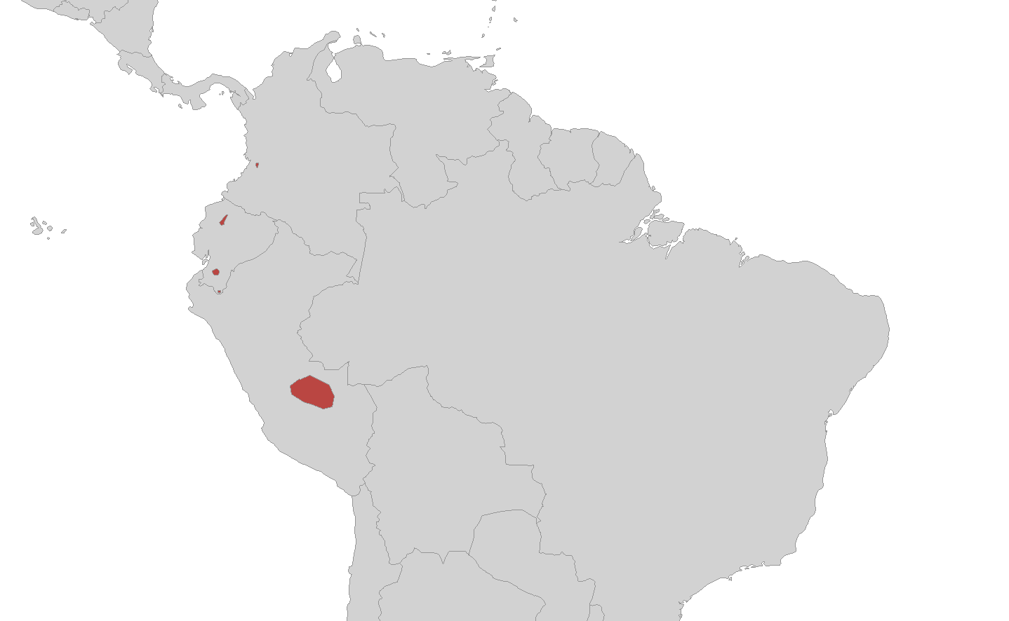 Epicrionops bicolor range